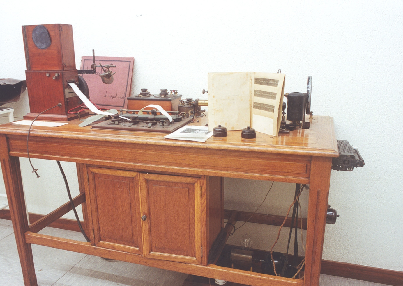 Electrocardiographe (Basque Museum of the History of Medicine and Science)